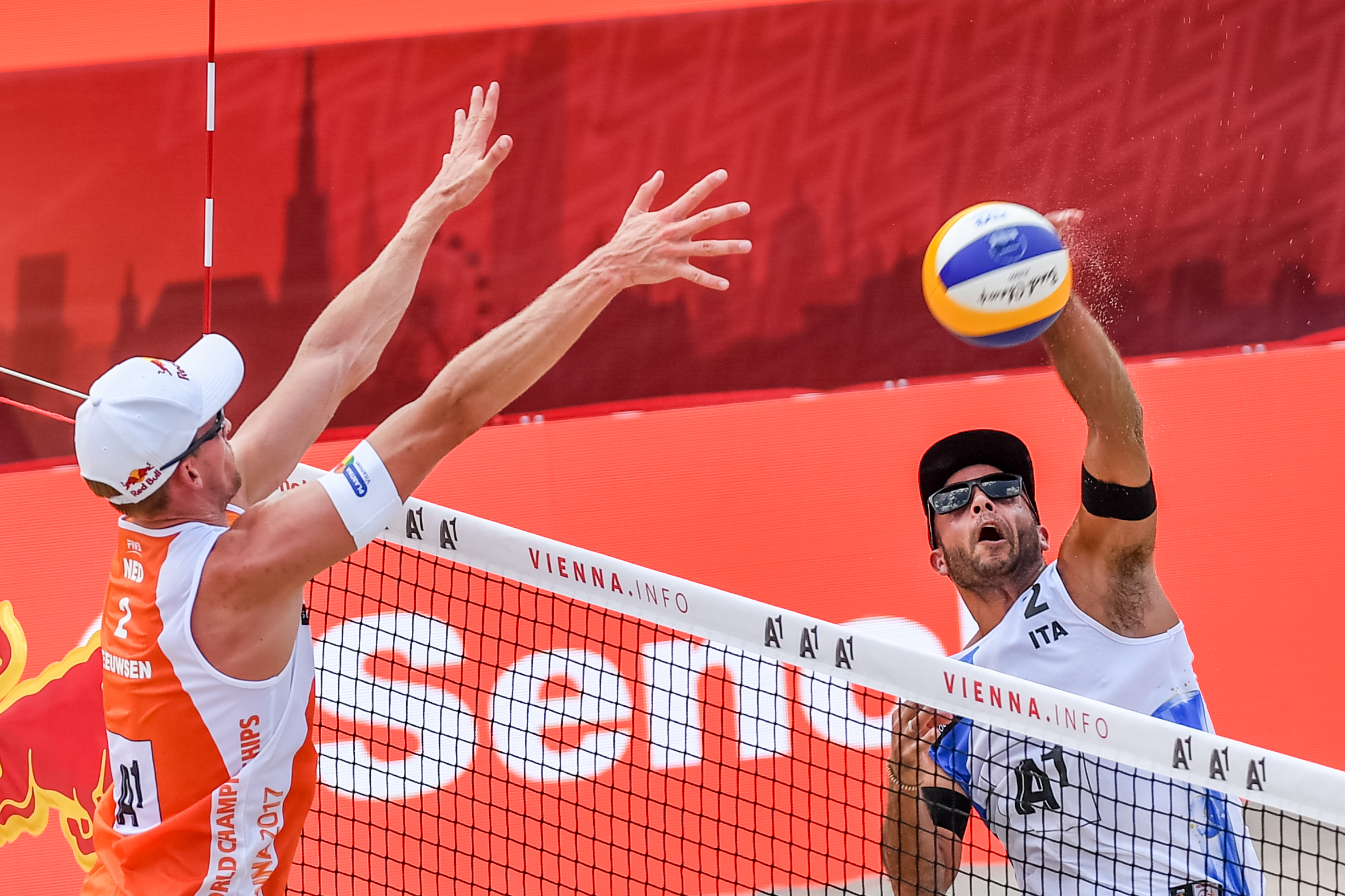 30/7/17, Vienna, Austria, sports, beach volleyball, FIVB Beach Volleyball World Championships.